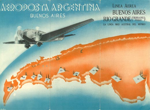 Art poster promoting Aeroposta Argentina. Text reads, in part: Aeroposta Argentina - Buenos Aires - Linea Aerea - "La linea mas austral del mundo"